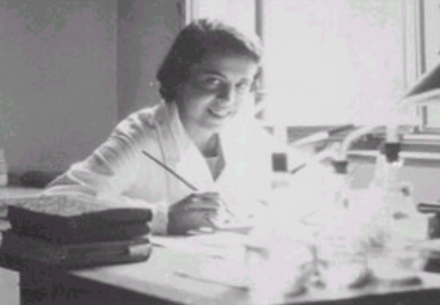 Photo by Dorotea Barnés, spanish teacher from the first quarter of the 20th century.